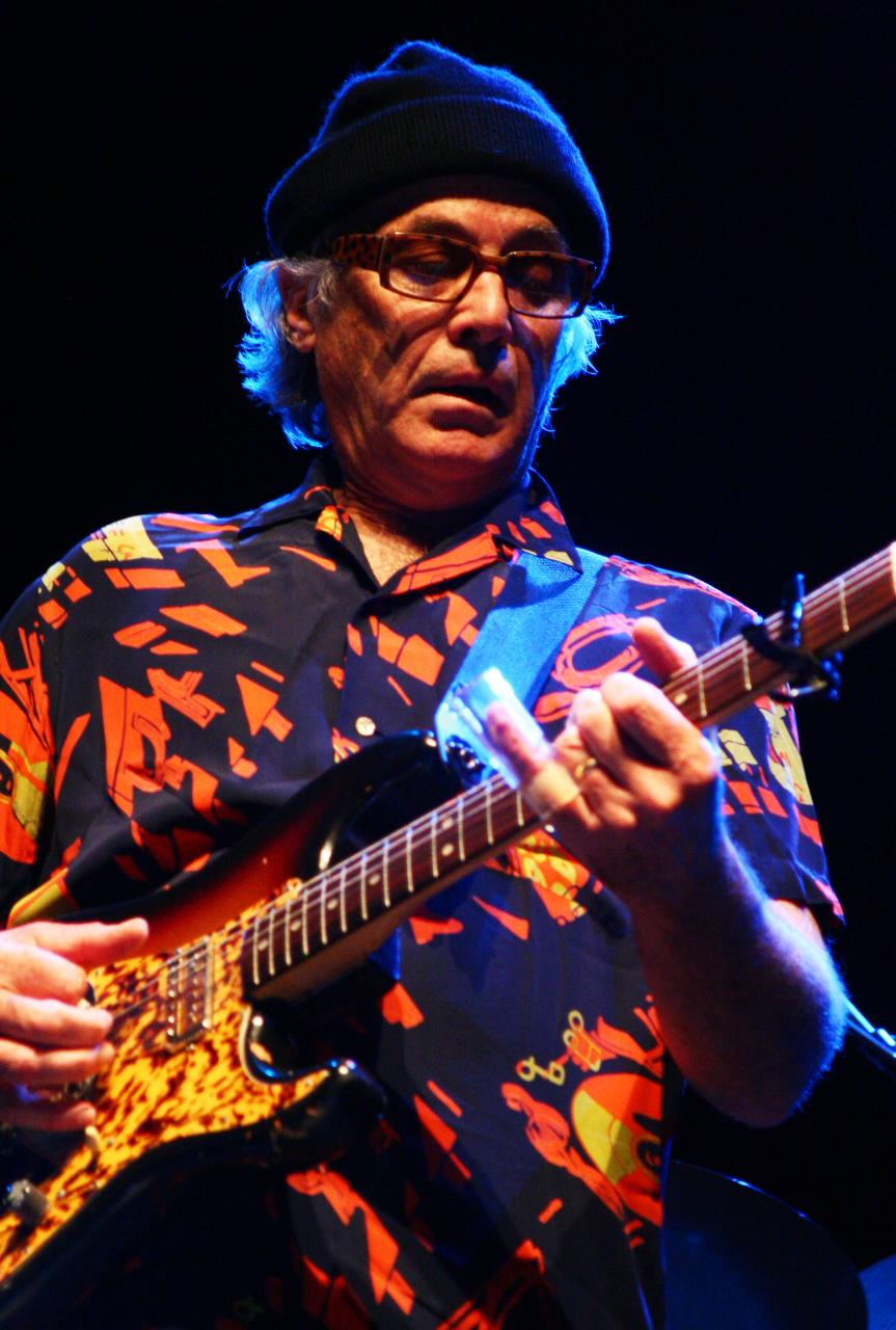 Ry Cooder playing guitar with his famous slide in 2009